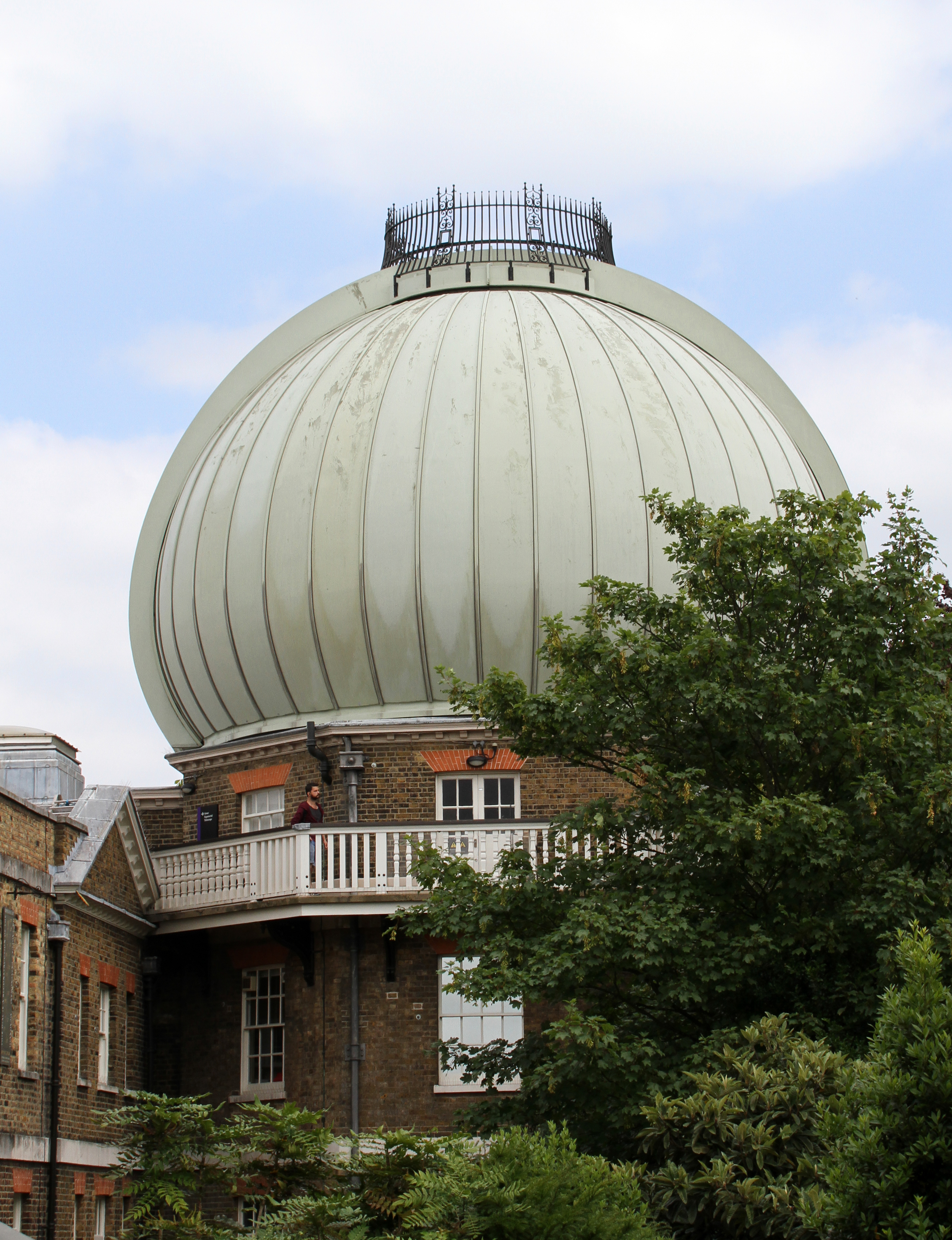 Dome covering the Great Equatorial Telescope